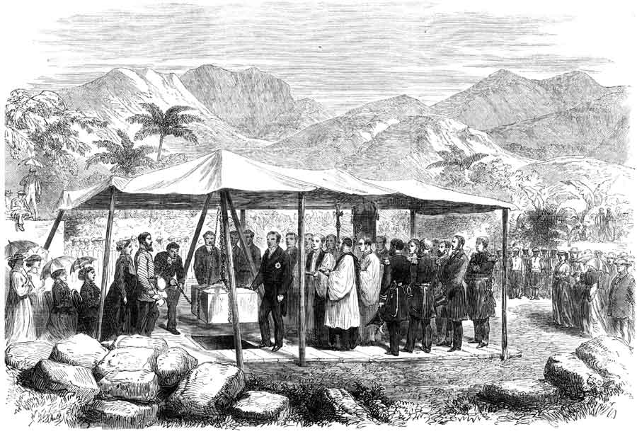 King Kamehameha V and Queen Dowager Emma of Hawaii at a ceremony laying the cornerstone of the Cathedral Church of Saint Andrew, Honolulu, March 5, 1867.